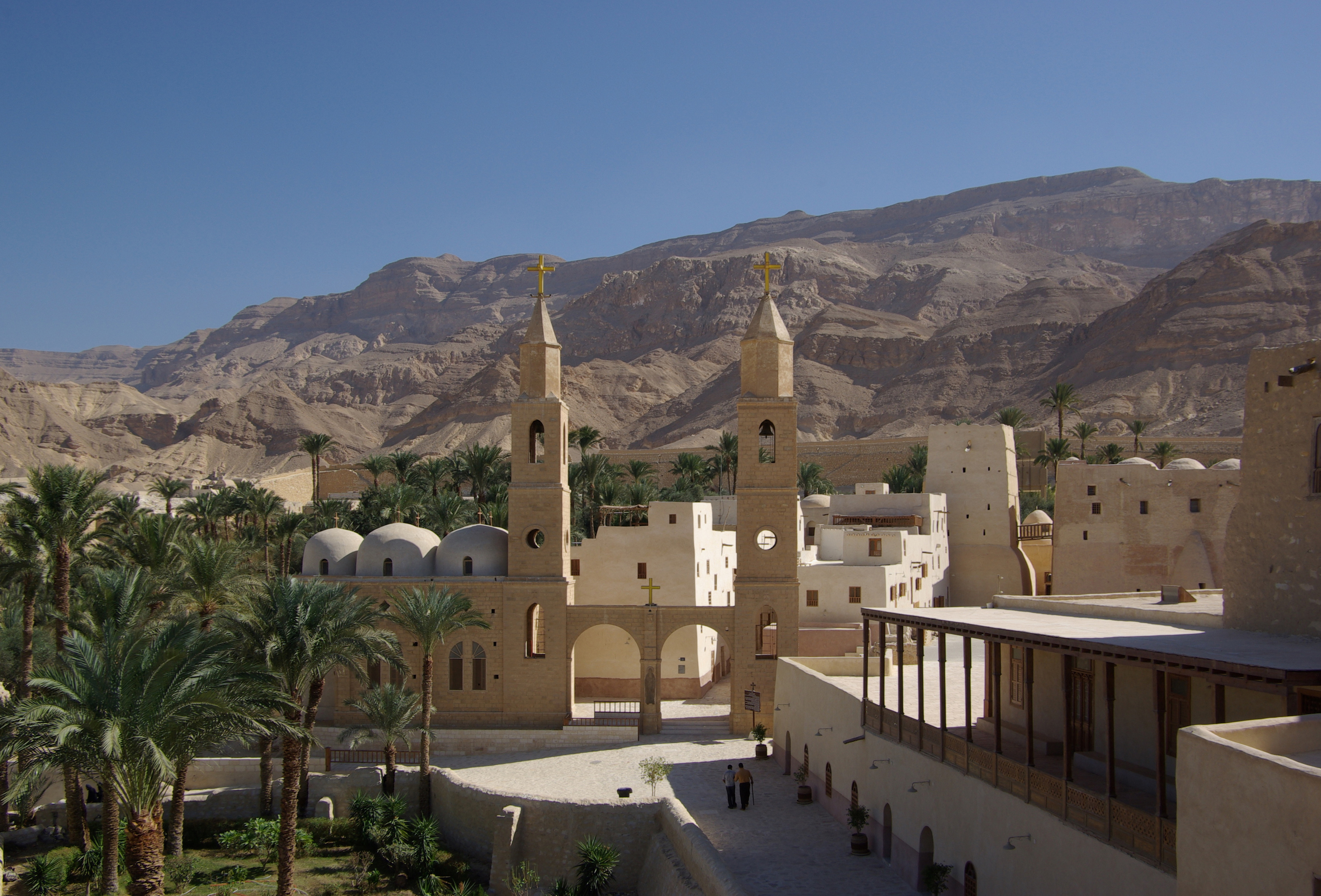 Monastery of Saint Anthony, Egypt